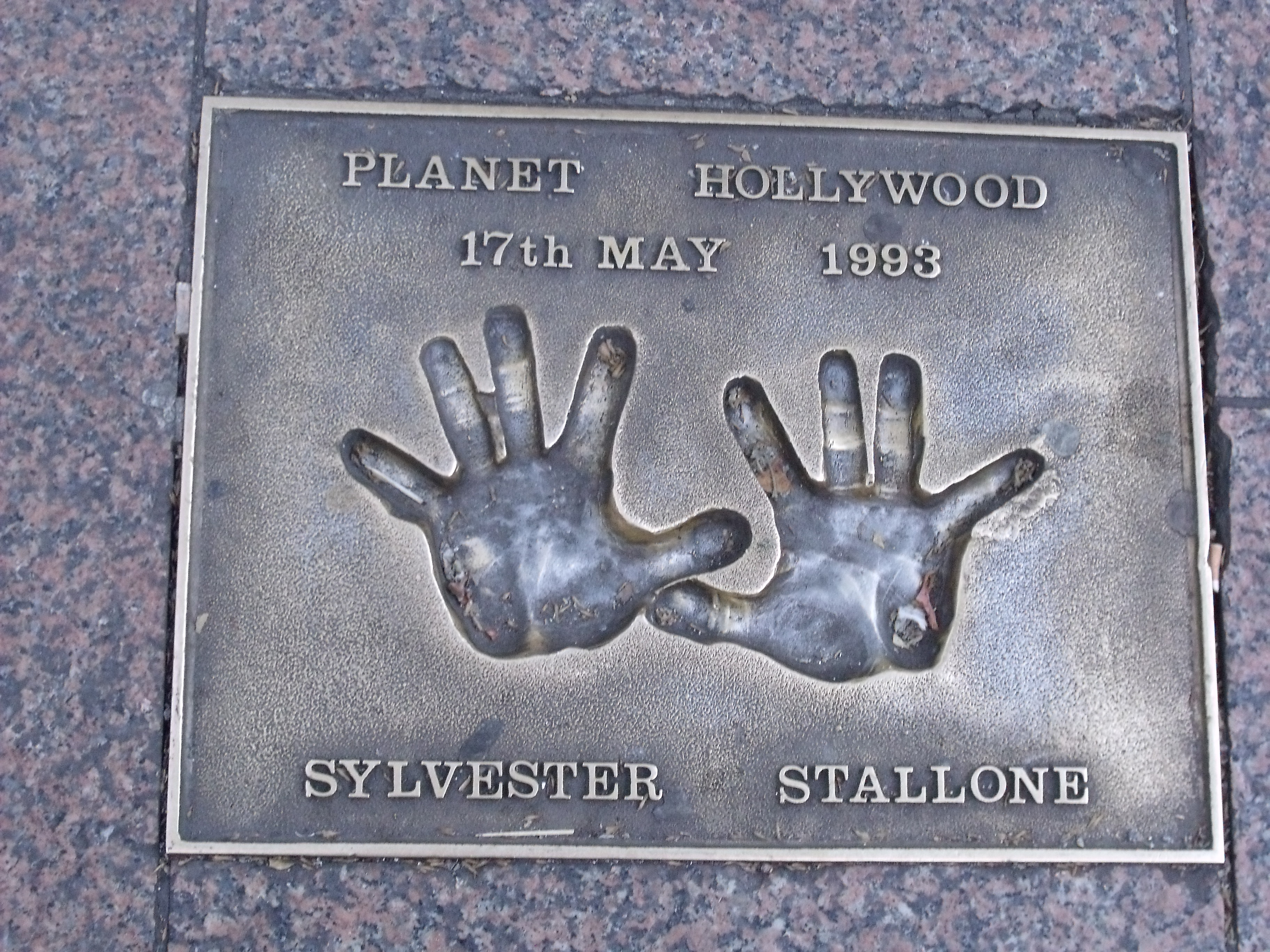 The area of London where UK film premieres take place. With loads of cinemas. Various hand prints in Leicester Square of various film stars. This one is from 1993 probably when Planet Holywood, London opened. Handprints of Sylvester Stallone.